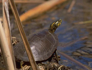 Painted turtle photographed in Richfield, MN, USA. Copyright 1997 Steven J. Dunlop, Nerstrand, MN, USA. Released under the GFDL; all other rights reserved.